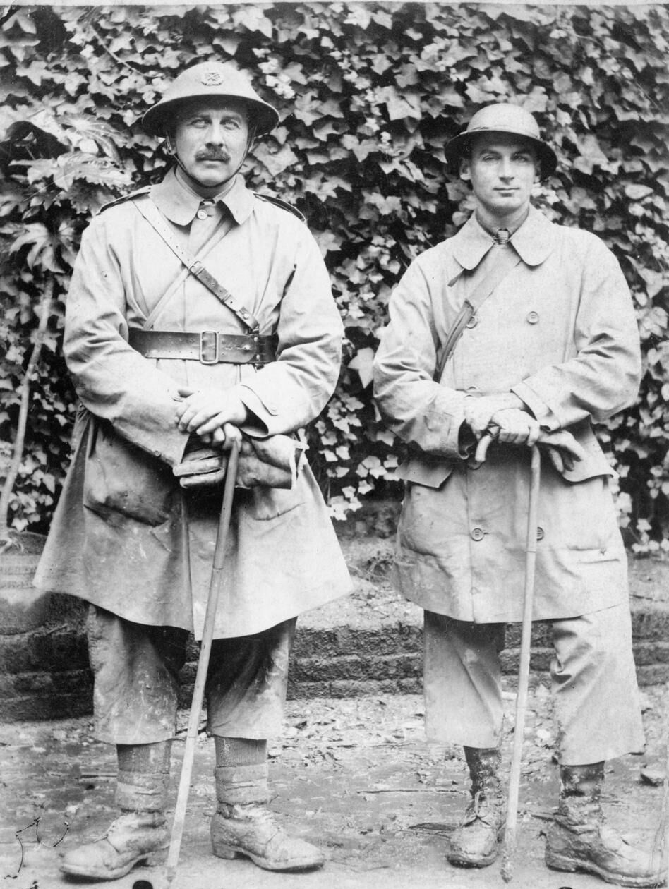 Captain Bernard Montgomery DSO with a fellow officer of 104 Infantry Brigade, 35 Division, with which he served from January 1915 until early 1917. He was awarded the DSO for conspicuous gallantry on 13 October 1914 during the Battle of the Aisne in which he was wounded.